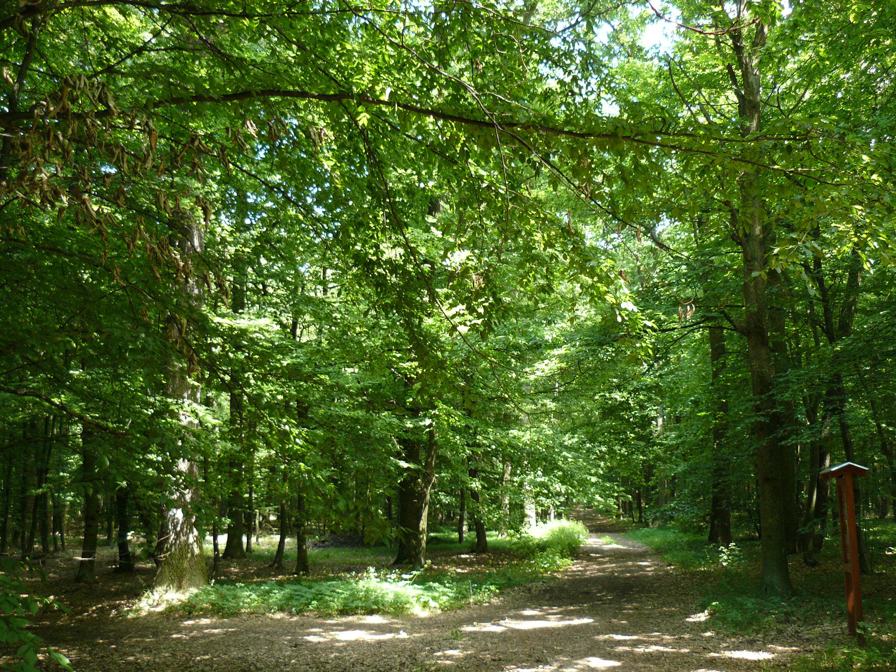 Veselsky haj - Nature Monument